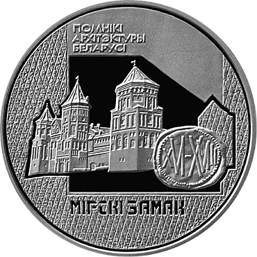 "Mir Castle". Silver commemorative coins, denomination: 20 rubles